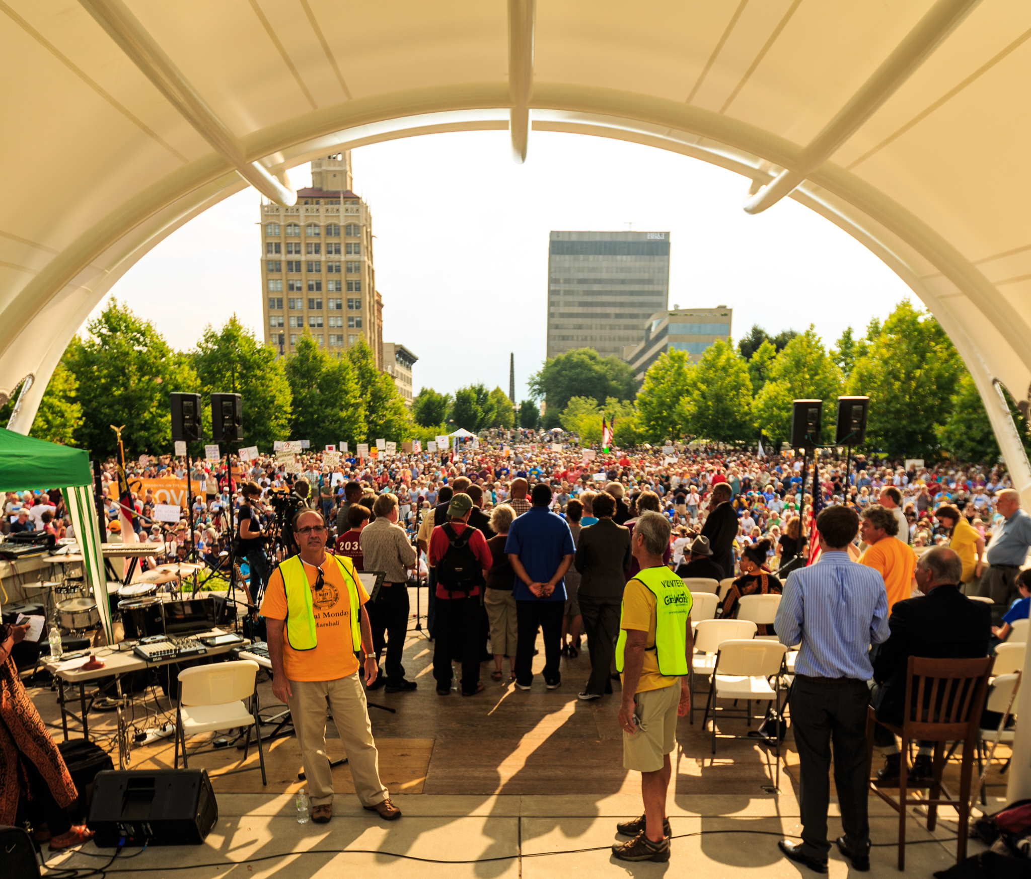 Photos from Mountain Moral Monday in Asheville, NC